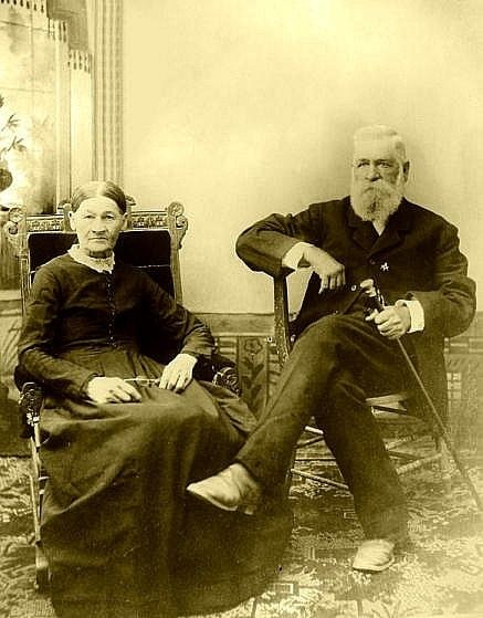 Nicholas Porter and Virginia (Cooksey) Earp c 1880-1899